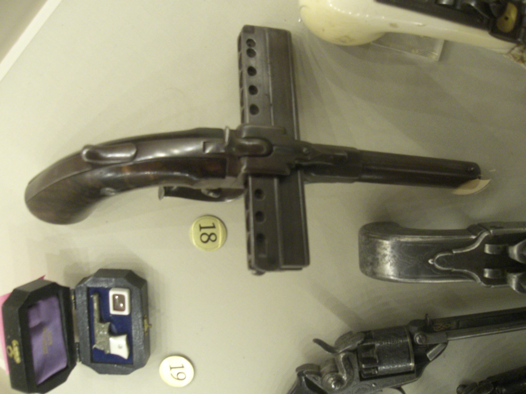 A 9 mm harmonica pistol. Taken at the National Firearms Museum